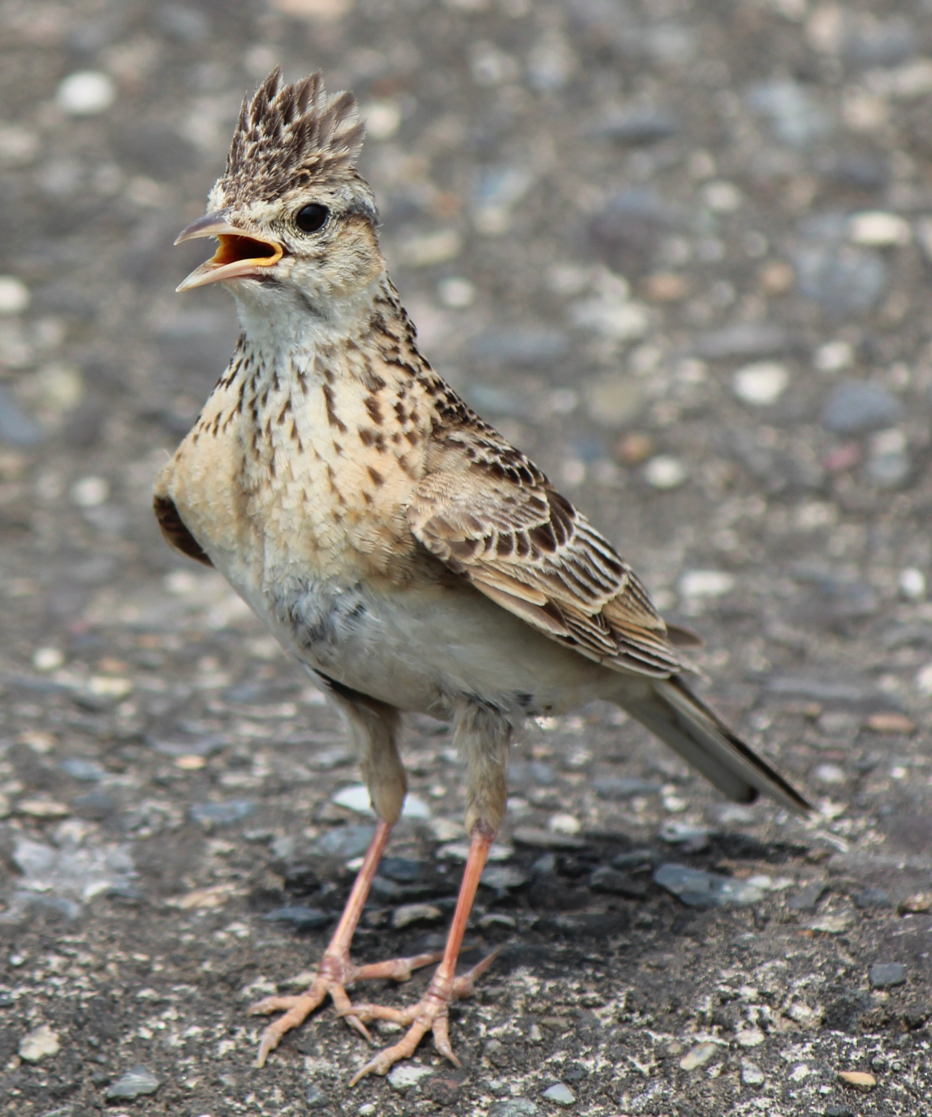 Alauda arvensis japonica (Eurasian Skylark), open mouth in Japan